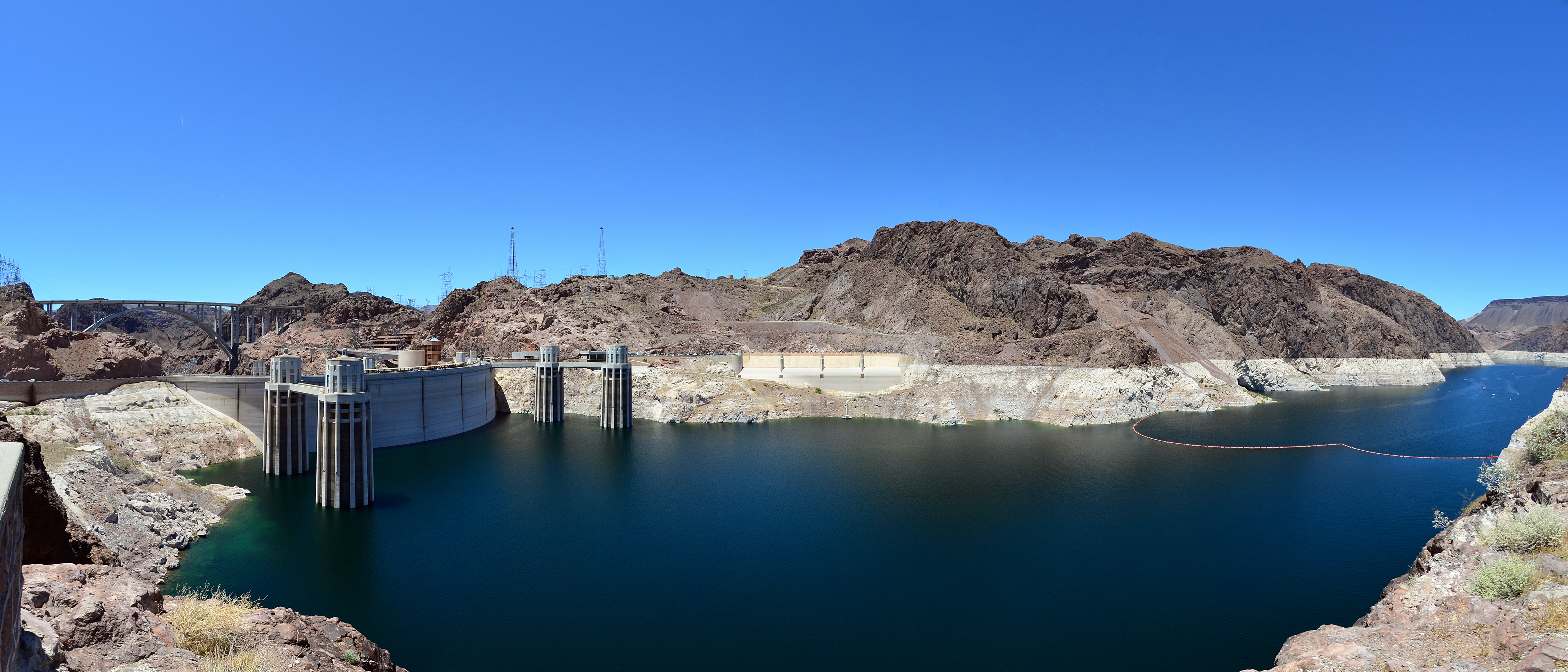 Lake Mead at Hoover Dam, panoramic view from the Arizona side showing the penstock towers, the Nevada-side spillway entrance and the Mike O'Callaghan–Pat Tillman Memorial Bridge, also known as the Hoover Dam Bypass Bridge.